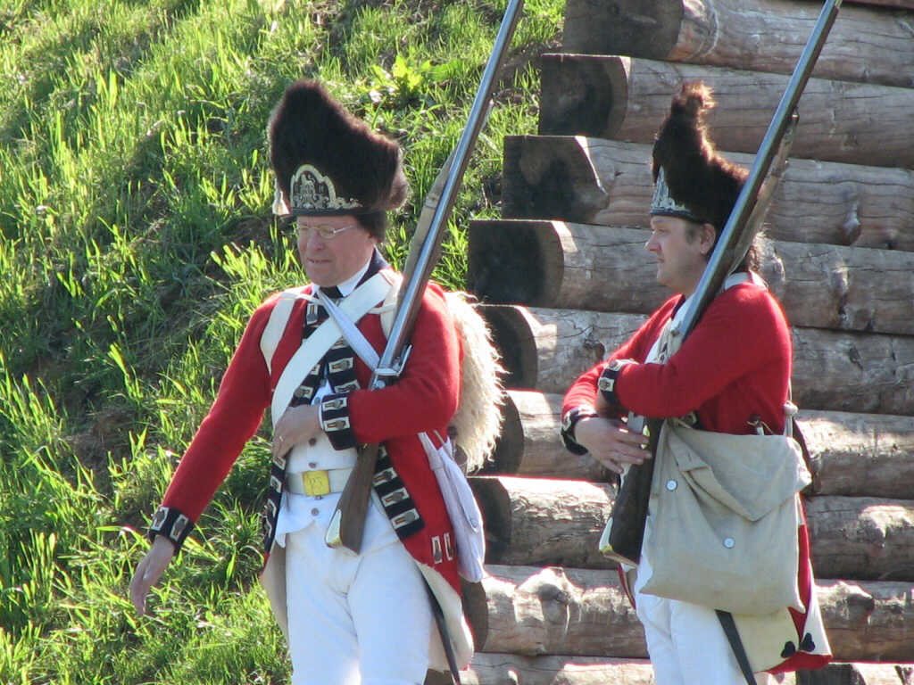 Fusiliers or privates of the 23rd Regiment of Foot, Royal Welch Fusiliers in America, on duty at the Revolutionary War redoubt at the U.S. Army Heritage and Education Center, May 2007. (U.S. Army Photograph)